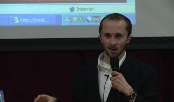 Game developer Danny Ledonne, creator of the controversial video game Super Columbine Massacre RPG! (2005).